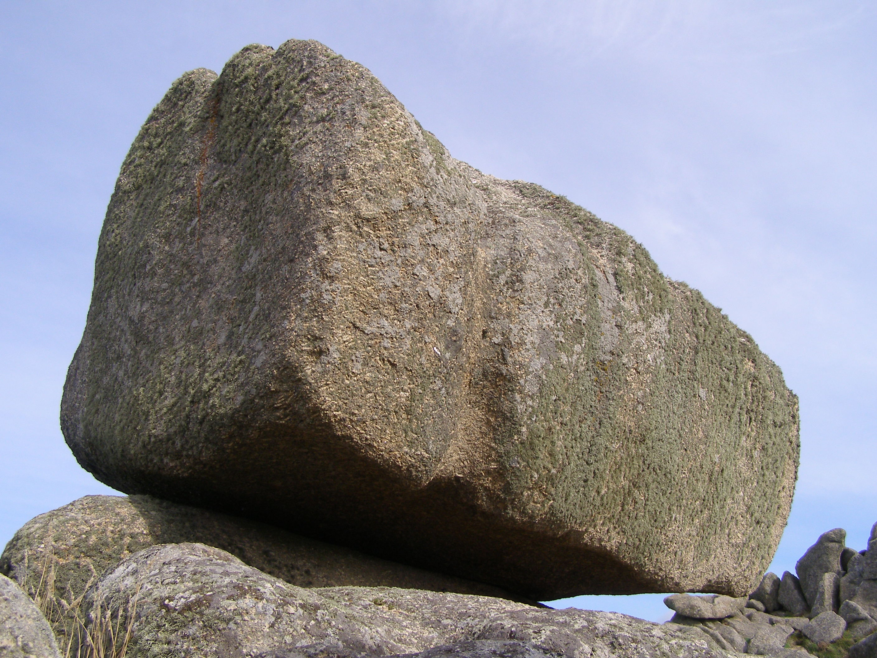 Close-up of the Logan Rock at the headland south of Treen, Cornwall